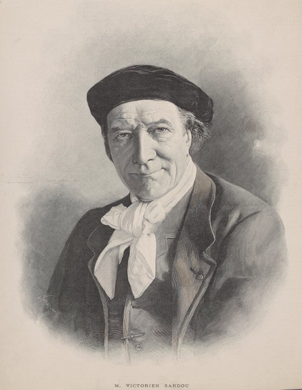 French playwright Victorien Sardou in 1901